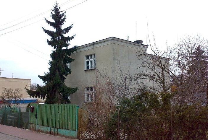 Poznan - Trojpole District. Old House.